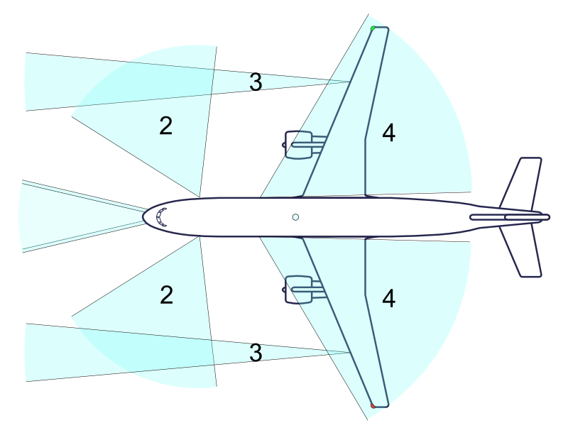 Jet-liner's lights #2 (W/O text)